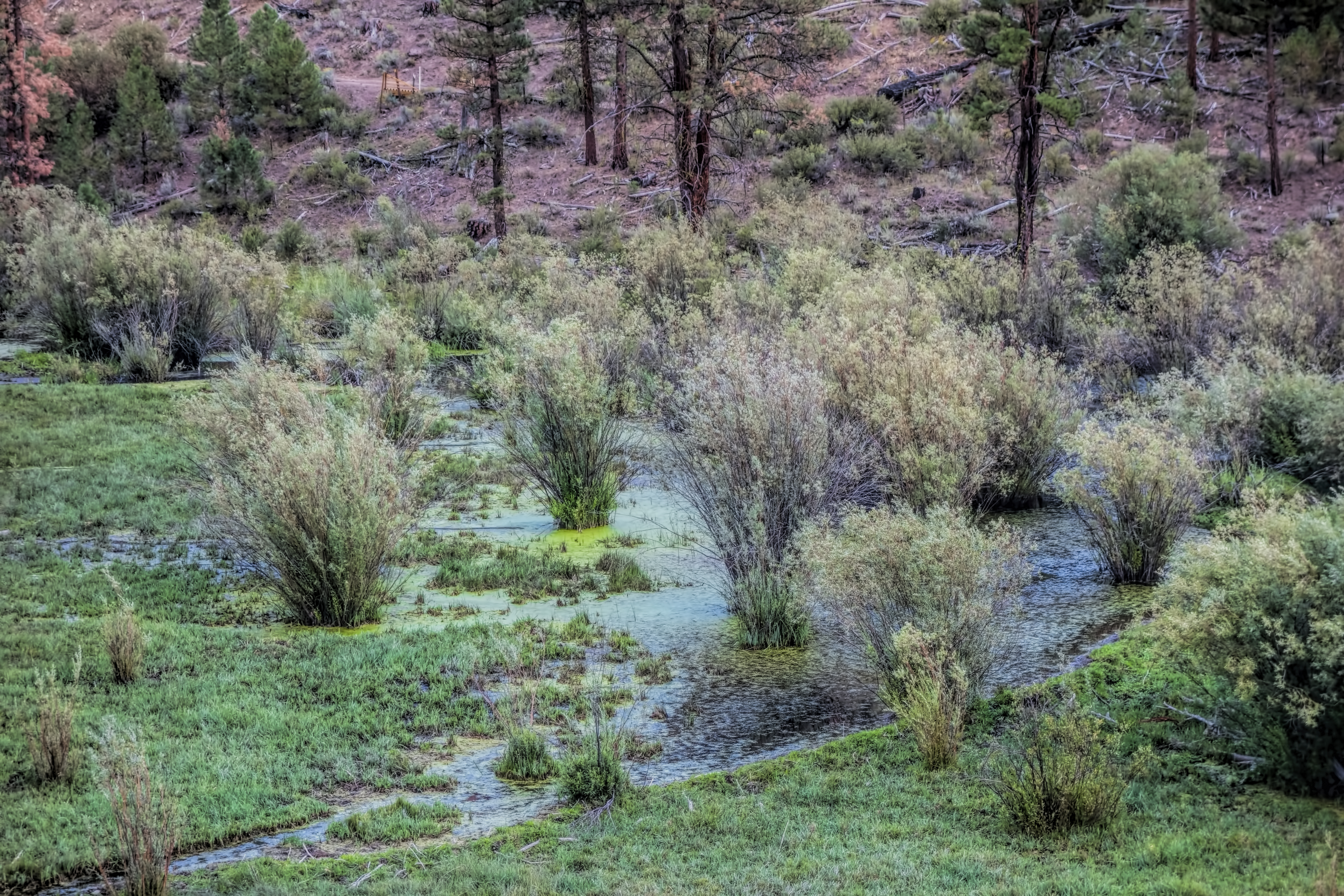 A swampy area on the canyon floor near Poison Creek in Malheur National Forest in eastern Oregon